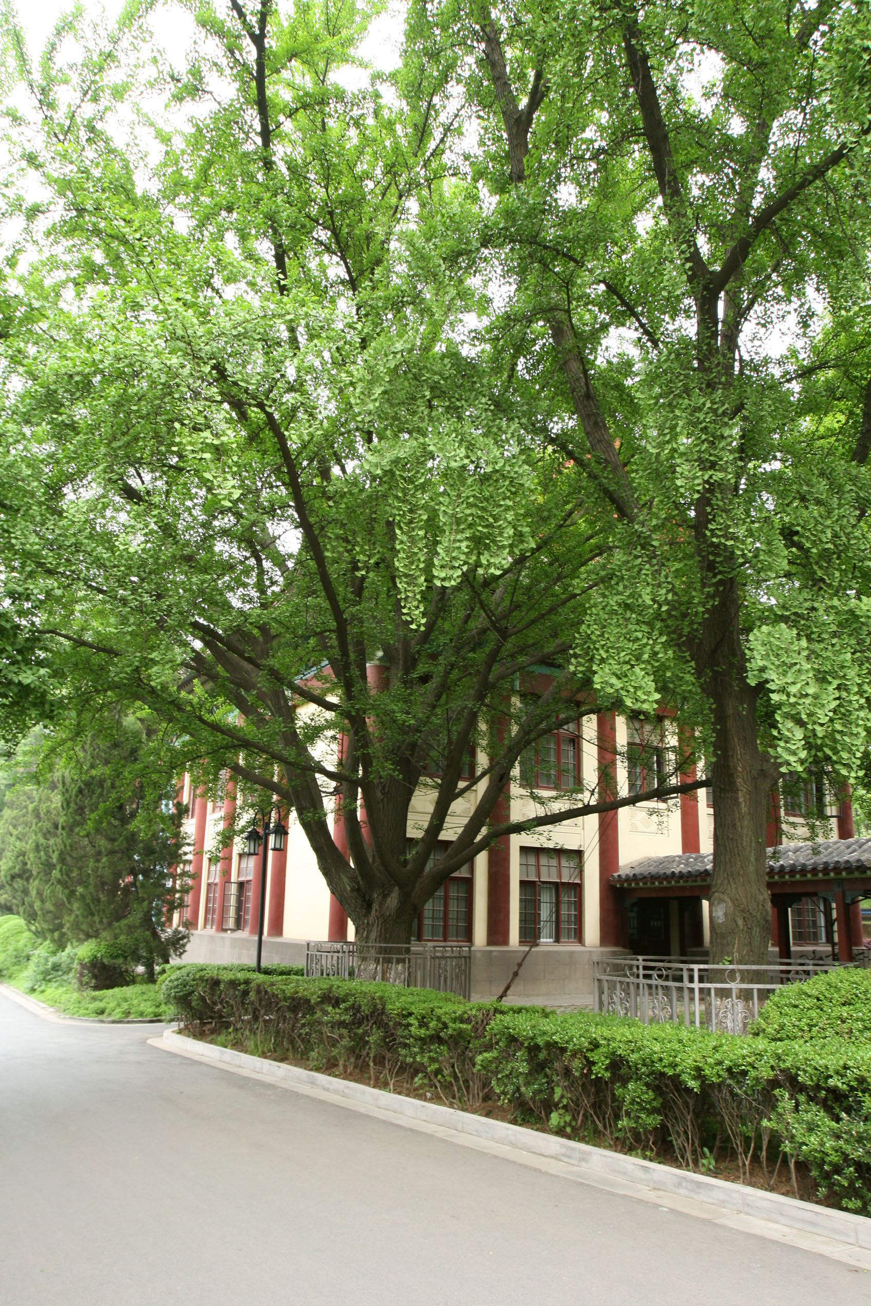 Nanjing Normal University;南京师范大学's tree